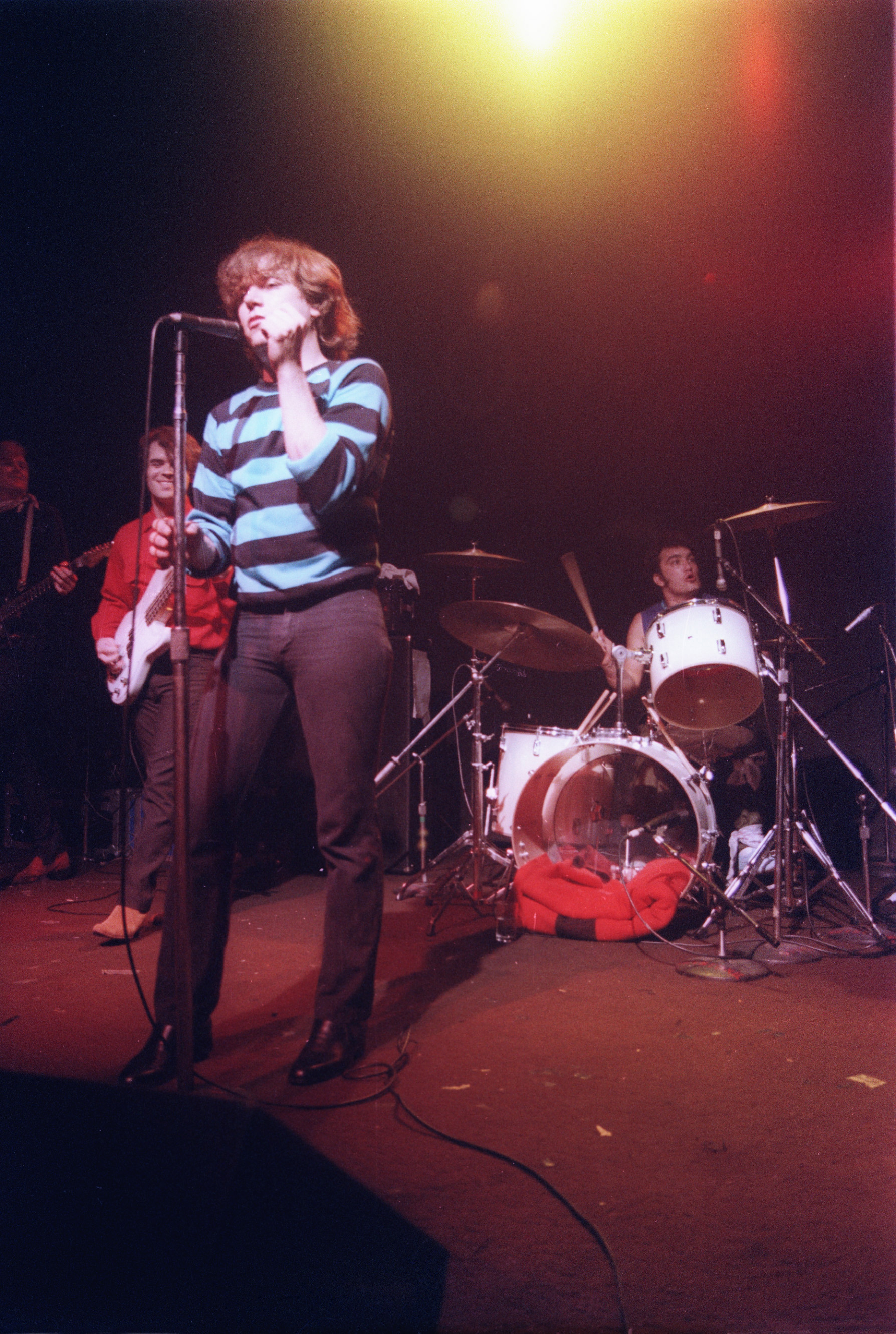 Phil Seymour at California's Keystone Palo Alto on 2 April 1982.